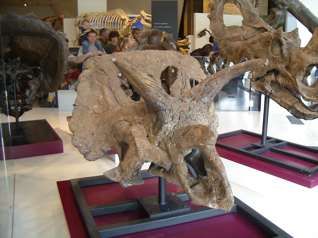 Arrhinoceratops Brachyops (head) fossil at ROM